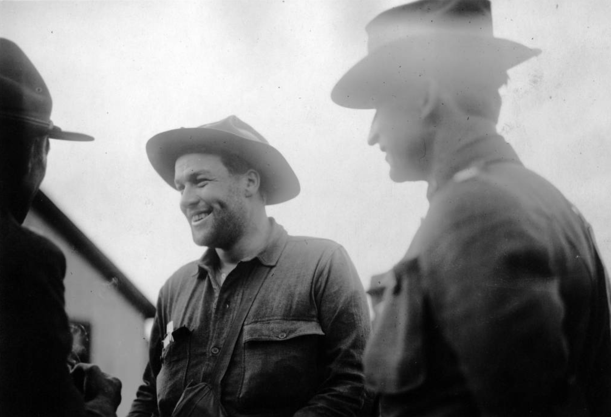 A picture of Lt. Karl E. Linderfelt during the 1913-1914 Colorado Coalfield War, most likely near Ludlow in early 1914.